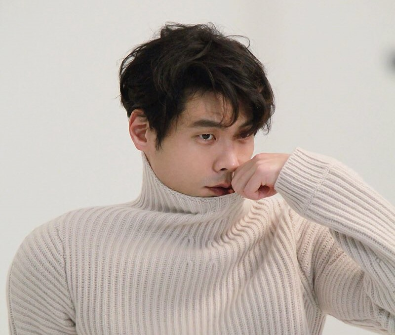 Choi Daniel 2017